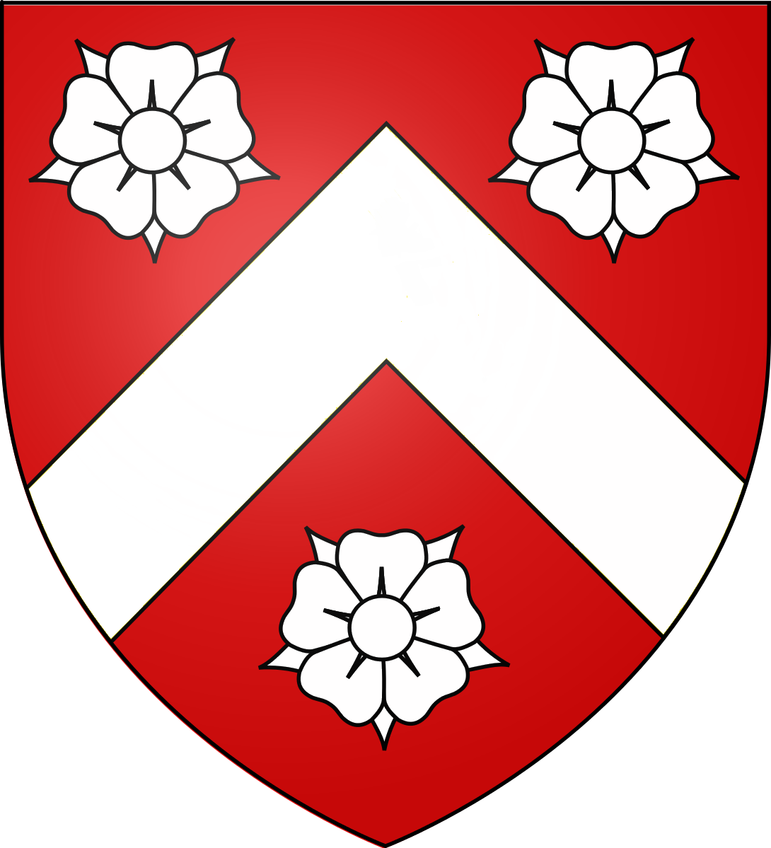 Arms of Wadham of Edge in Branscombe, Devon and Merrifield in Ilton, Somerset: Gules, a chevron between three roses argent